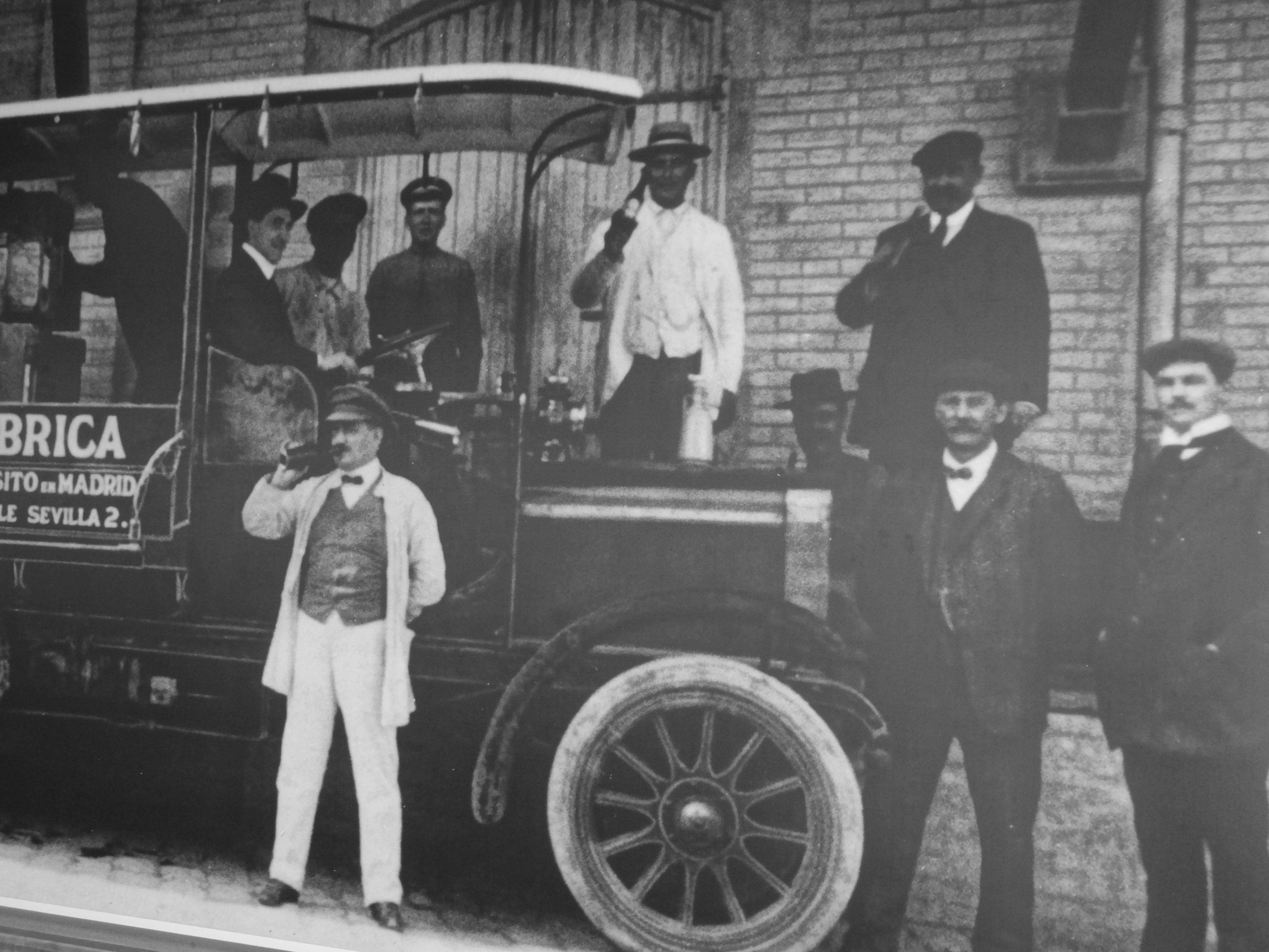 A Cruzcampo vintage photograph that was covering a wall in a cafe in the Valencia region of España Photography by David Adam Kess